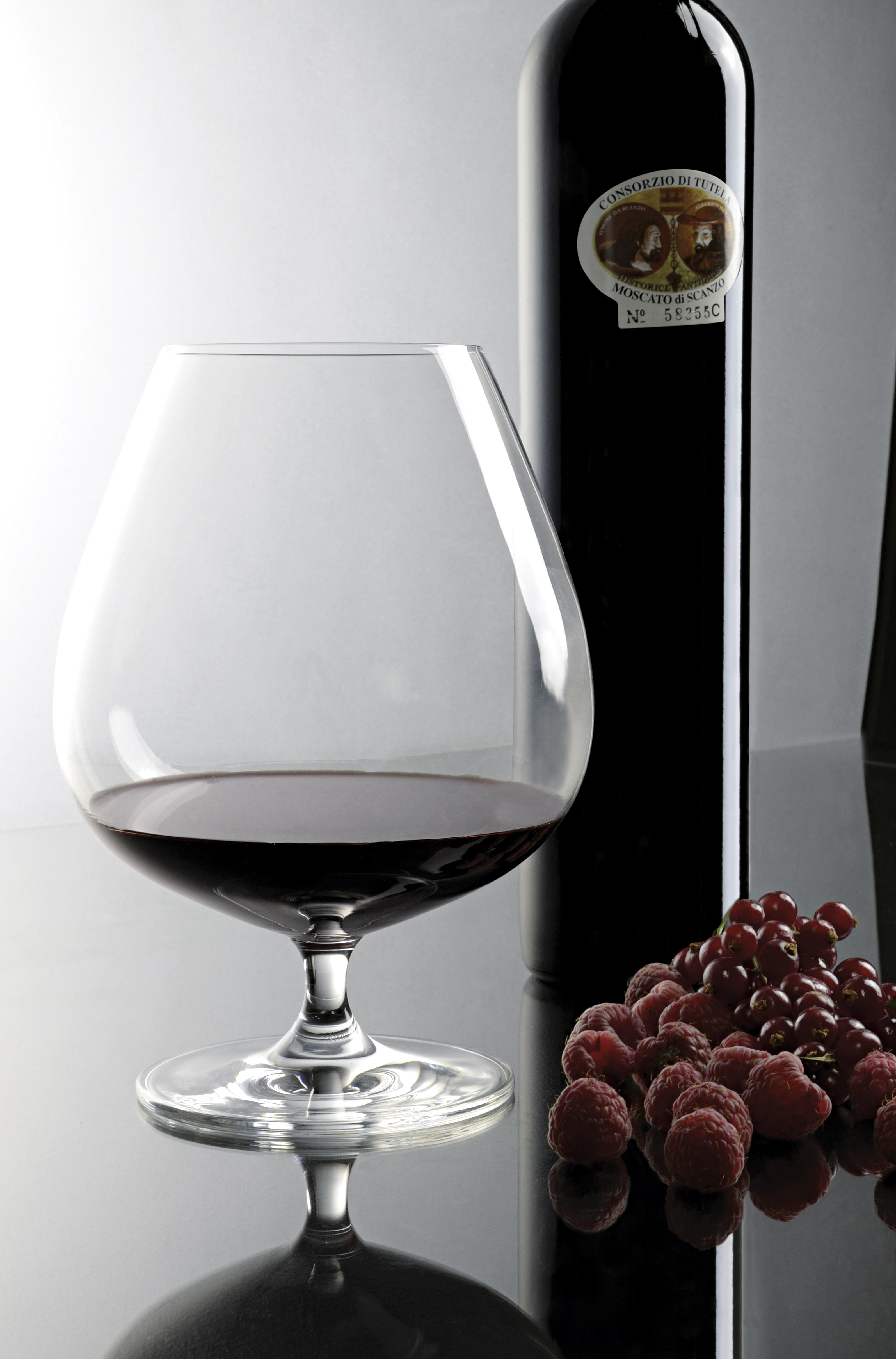 Complex aroma, scent of ripened plum, cherry, rosehip and sage. Other notes such as tobacco and cocoa can be found in young Moscatos; The taste is balanced and elegant, moderately sweet, smooth, velvety, full-bodied wine with incredible persistence